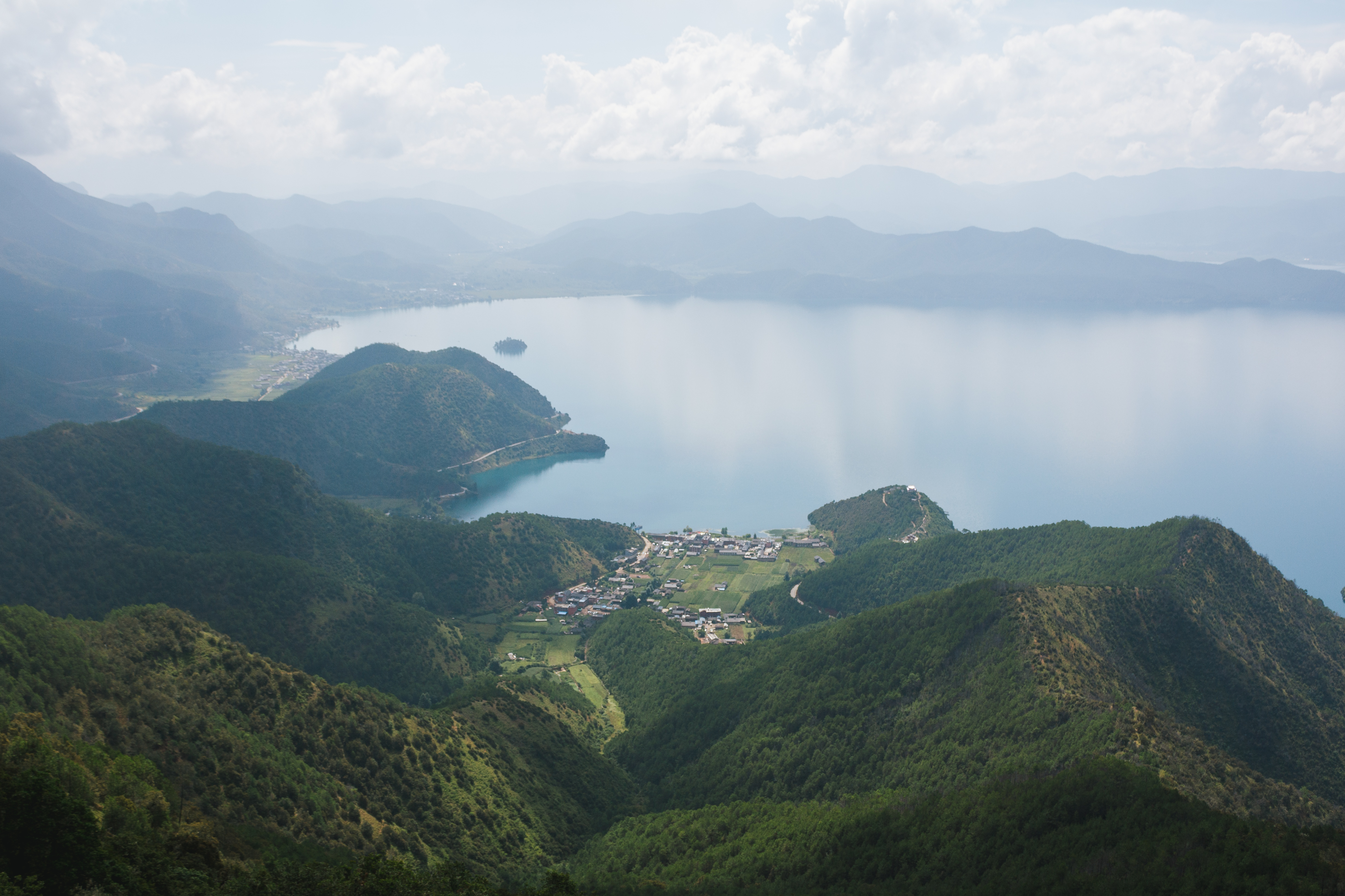 A view of Lugu Lake from a cable car running up a nearby mountain.